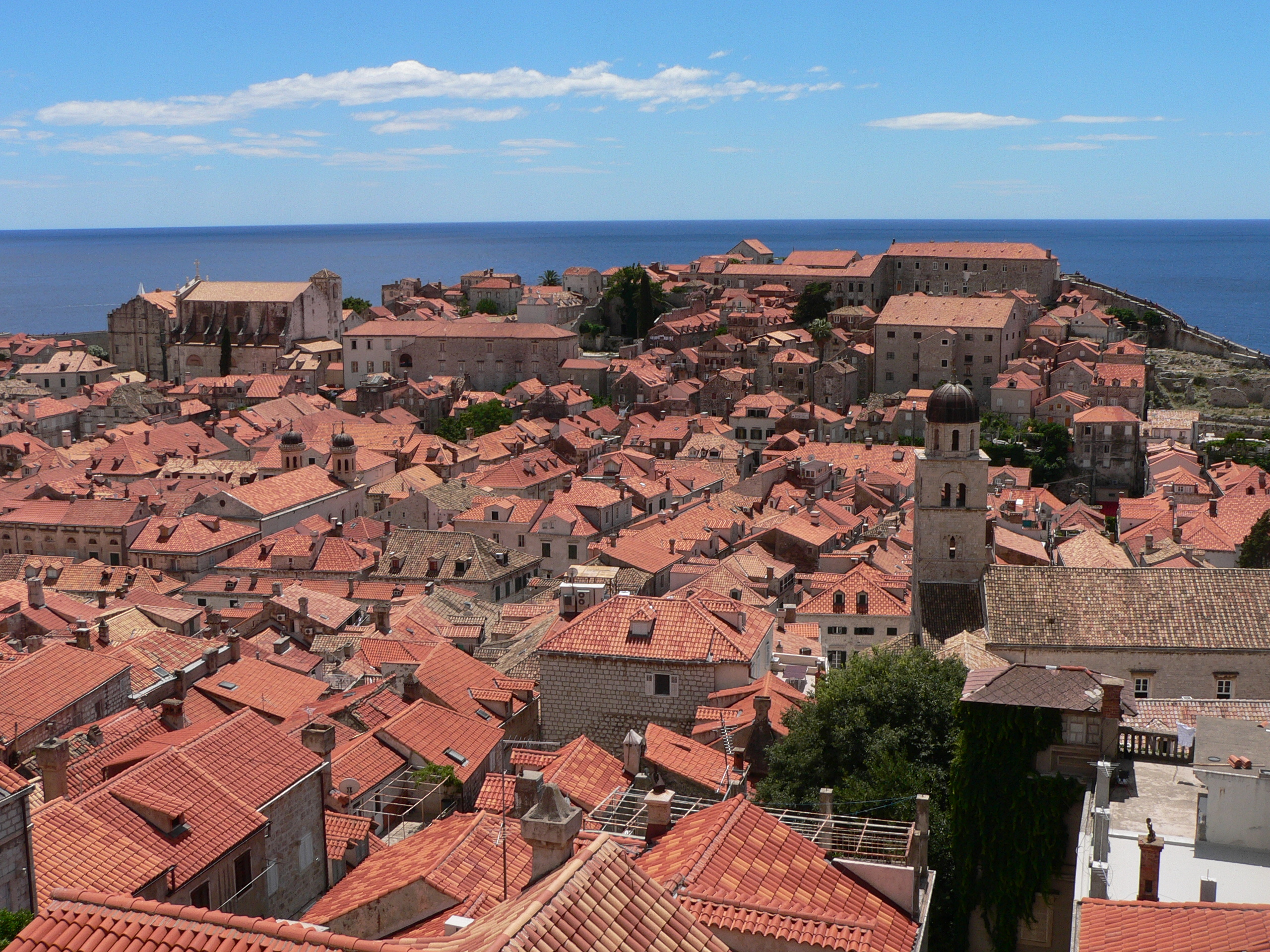 Rooftops in the Old City, Dubrovnik